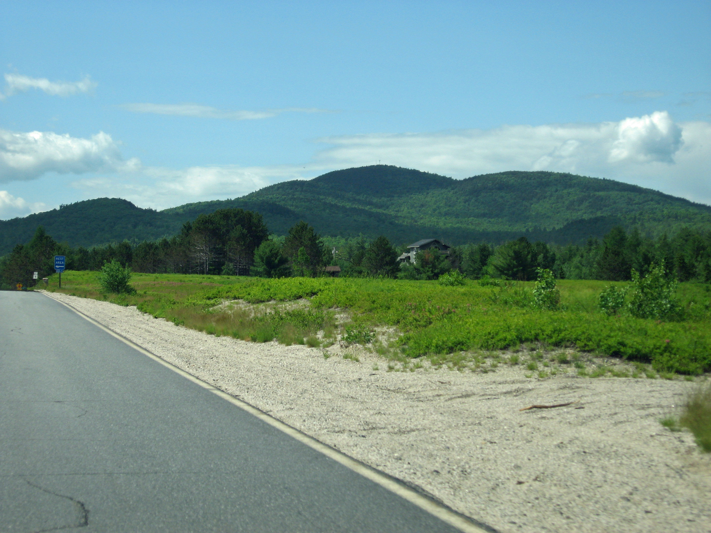 Lead Mountain in eastern Maine seen from the south